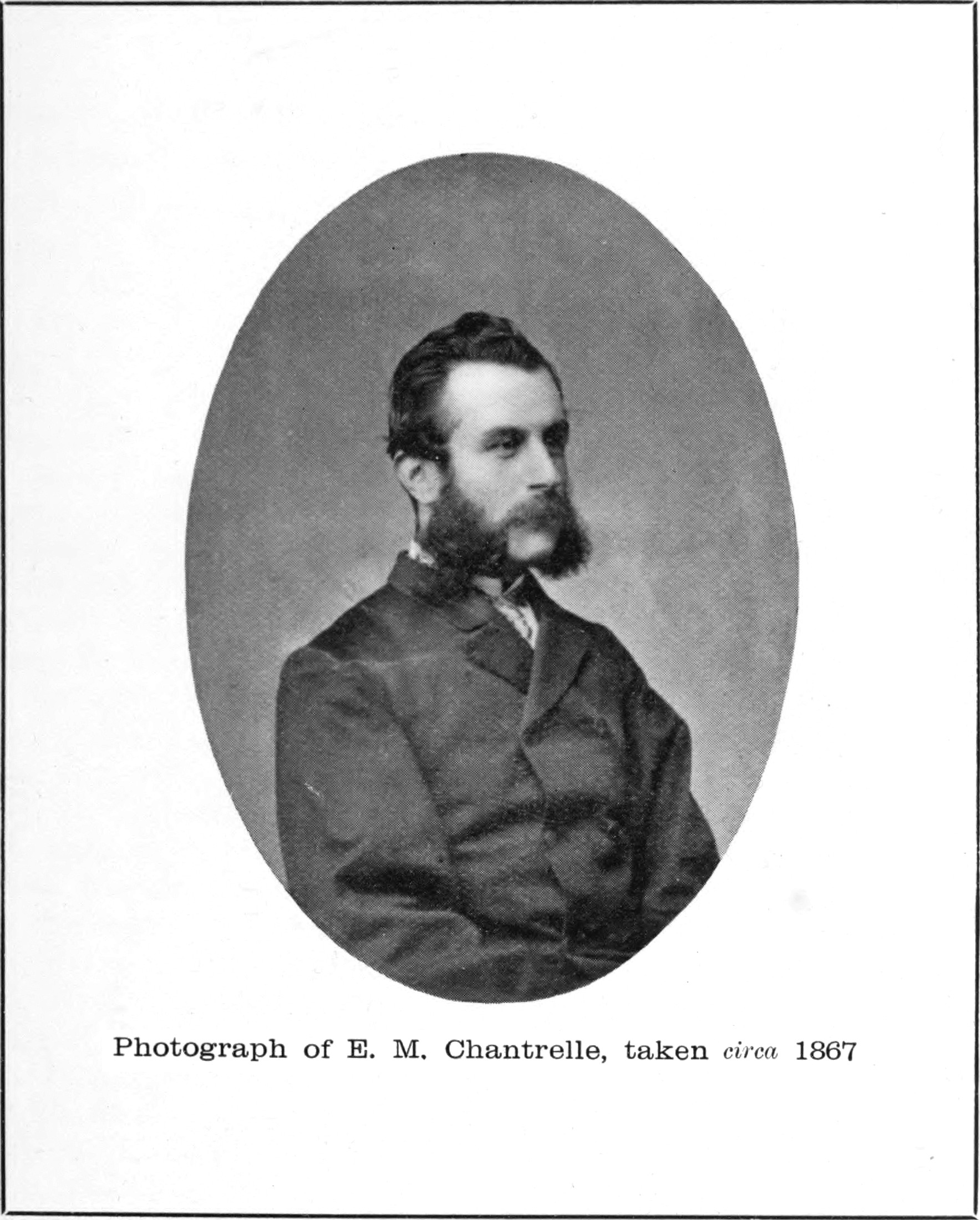 Photograph of E.M. Chantrelle